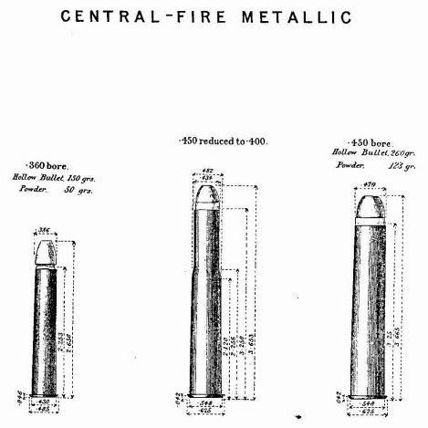 A page from an 1884 Kynoch cartridge catalogue, showing the .360, .450/400 & .450 Black Powder Express cartridges. At the time Kynoch was attempting to standardise cartridge dimensions. The neck size shown is for diameter of the case neck, not the bullet diameter.